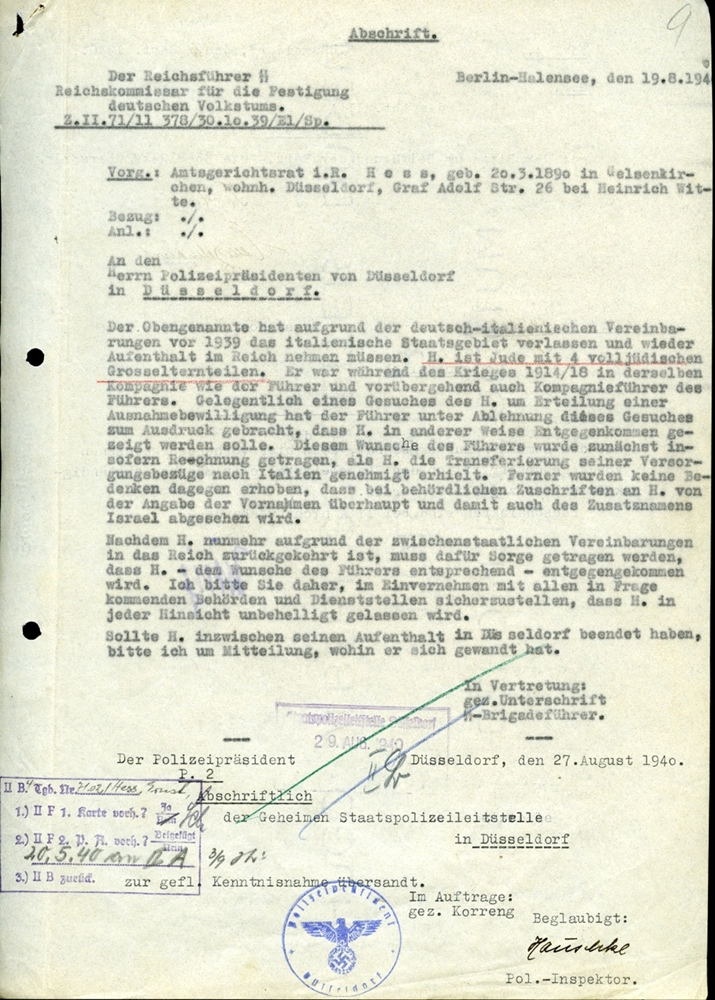 A letter of 27 August 1940 by Reichsführer-SS Heinrich Himmler to the police of Düsseldorf concerning the treatment of Ernst Moritz Hess.